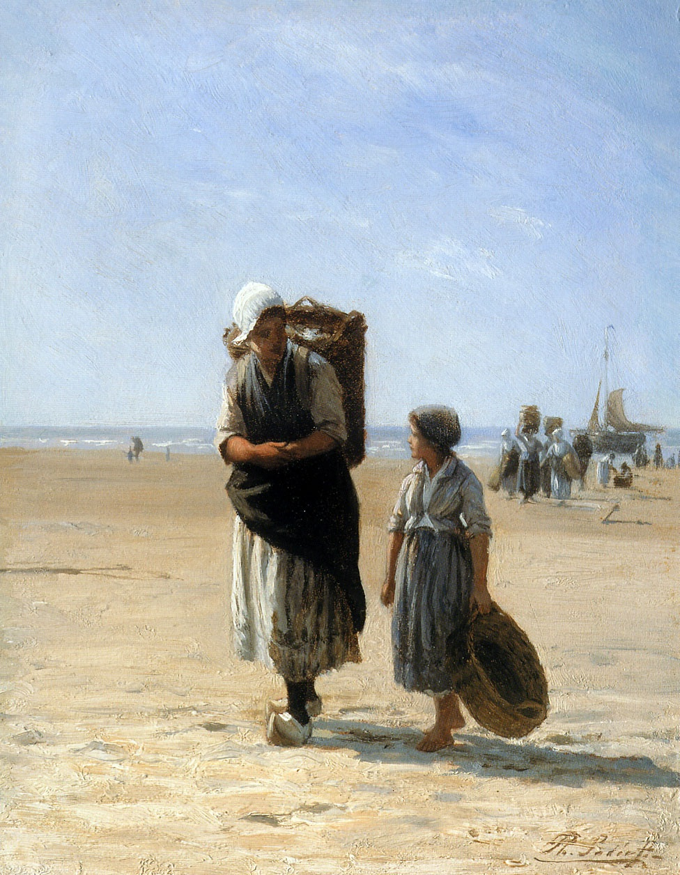 Moeder en dochter gaan naar huis